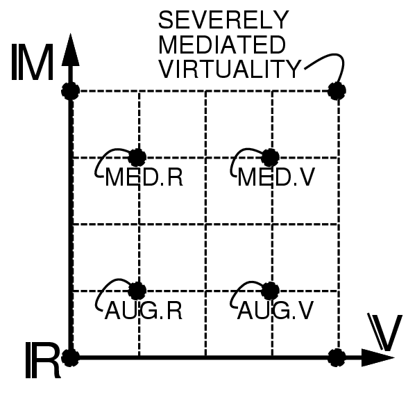 Mediated Reality continuum showing the virtuality and mediality axes